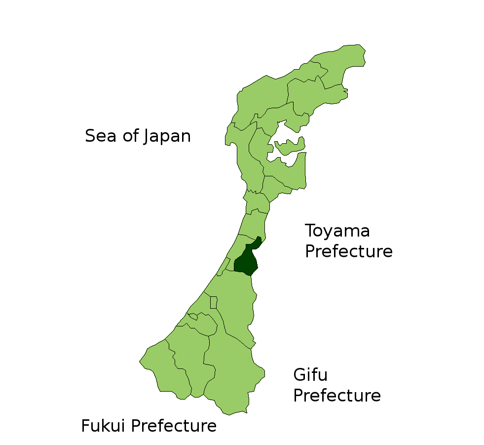 Location Map of Tsubata in Ishikawa Prefecture, Japan